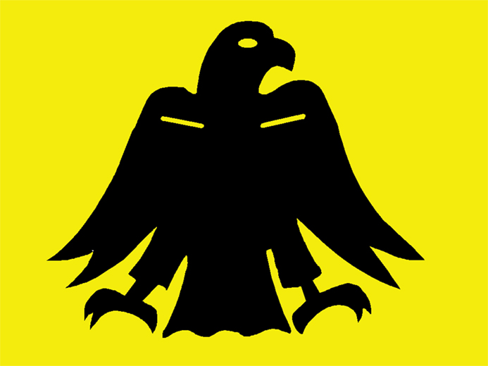 Black eagle, Basque nationalist symbol, designed after the seal of Sancho III the Great.